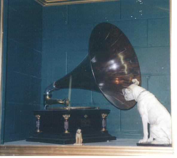 I took photo in Big Spring, TX, with Kodak camera.